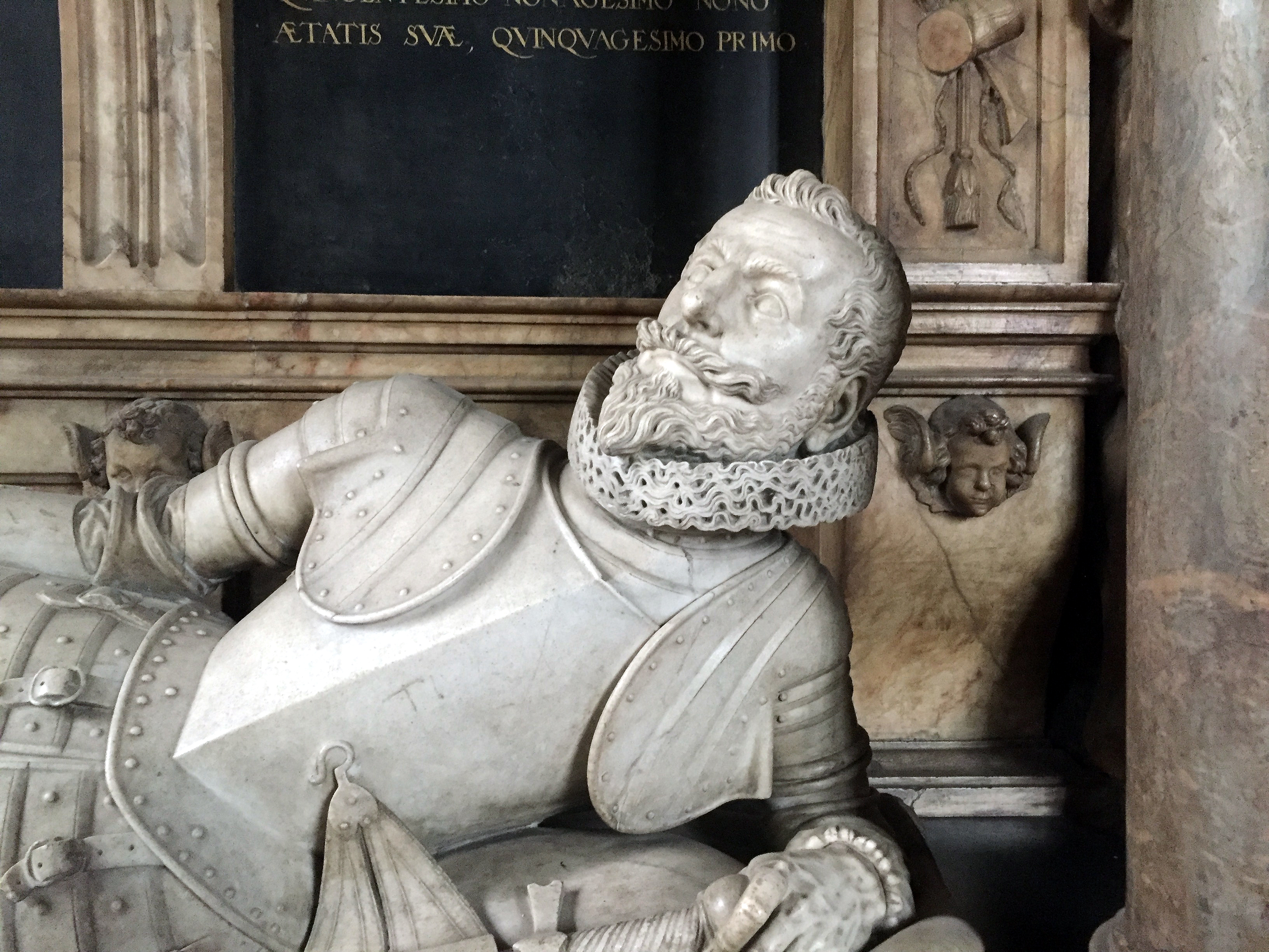 Tomb of Sir Charles Morrison the elder (1549-1599) in the Essex Chapel, St Mary's Parish Church, Watford, Hertfordshire